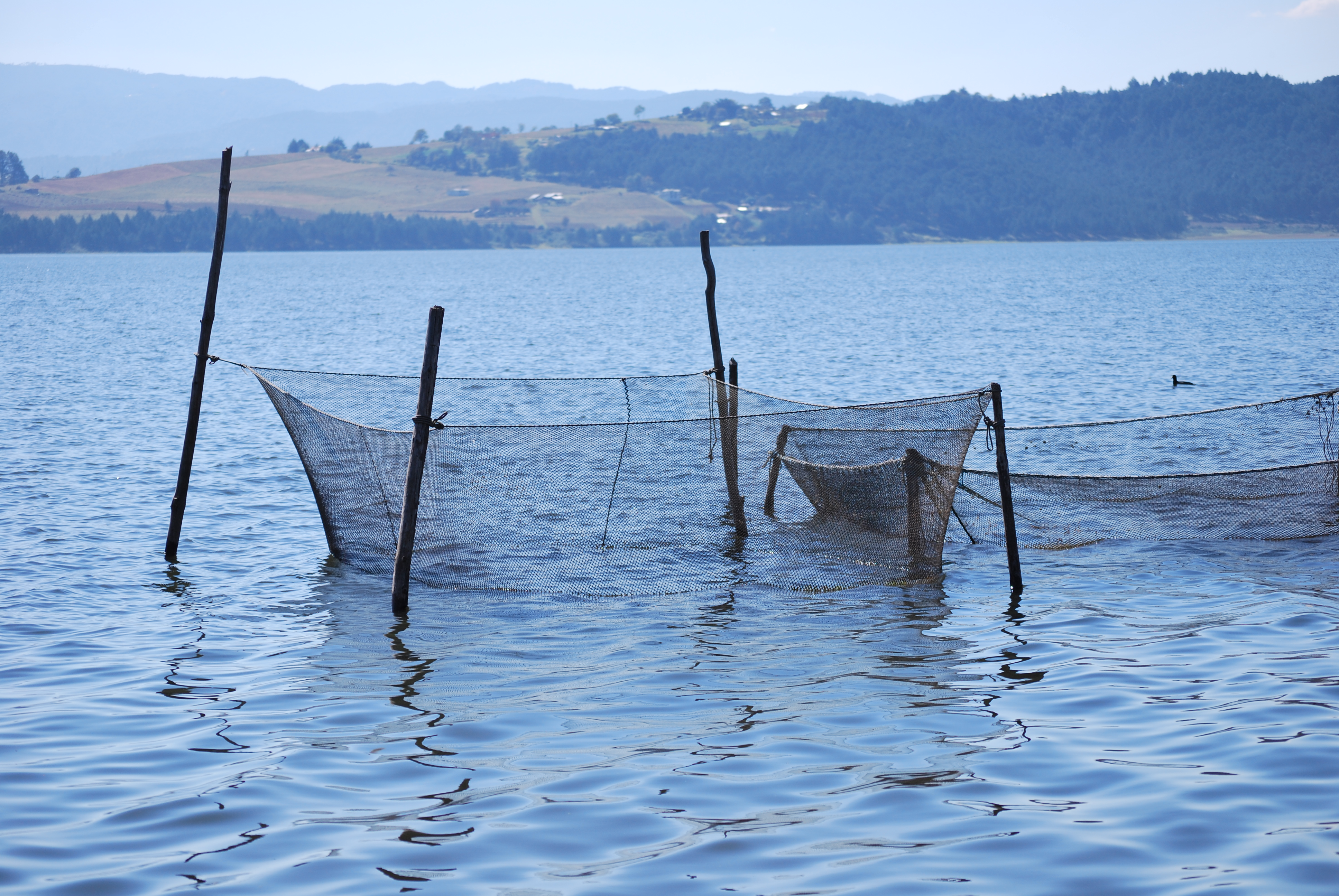 Nets for holding live fish at Tejocotal Dam in Puebla, Mexico